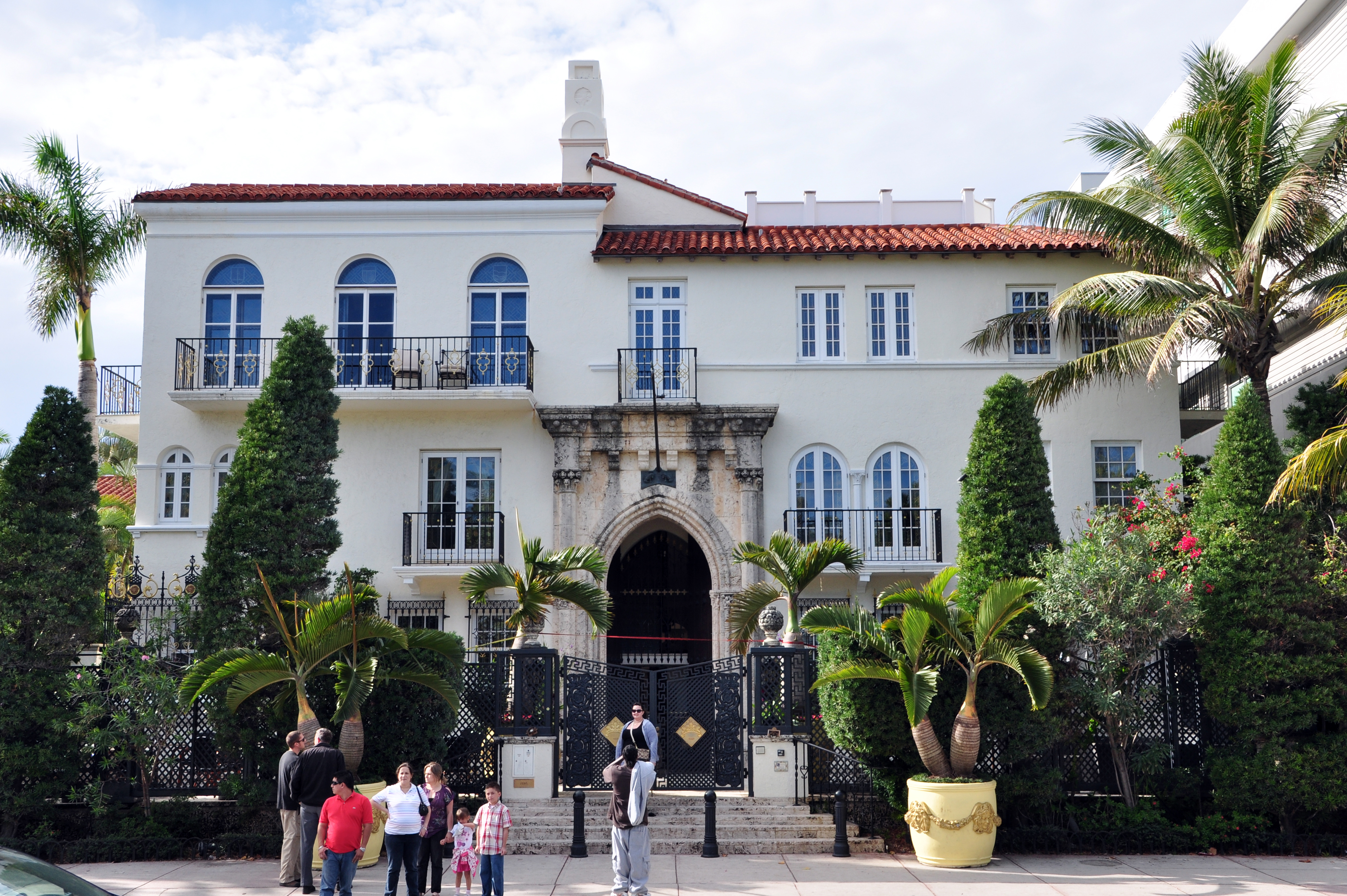 Gianni Versace mansion, South Beach, Miami, Florida